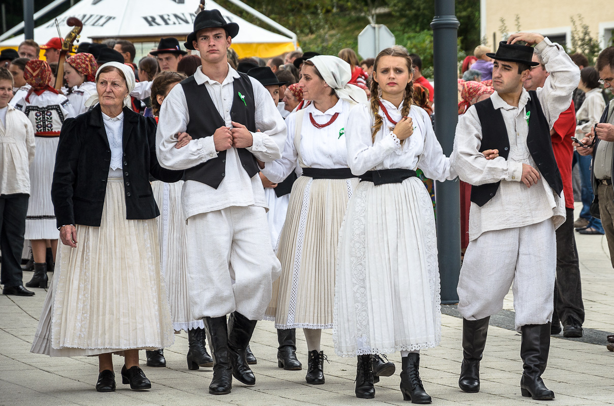 Folk costumes from Predgrada, Croatia.